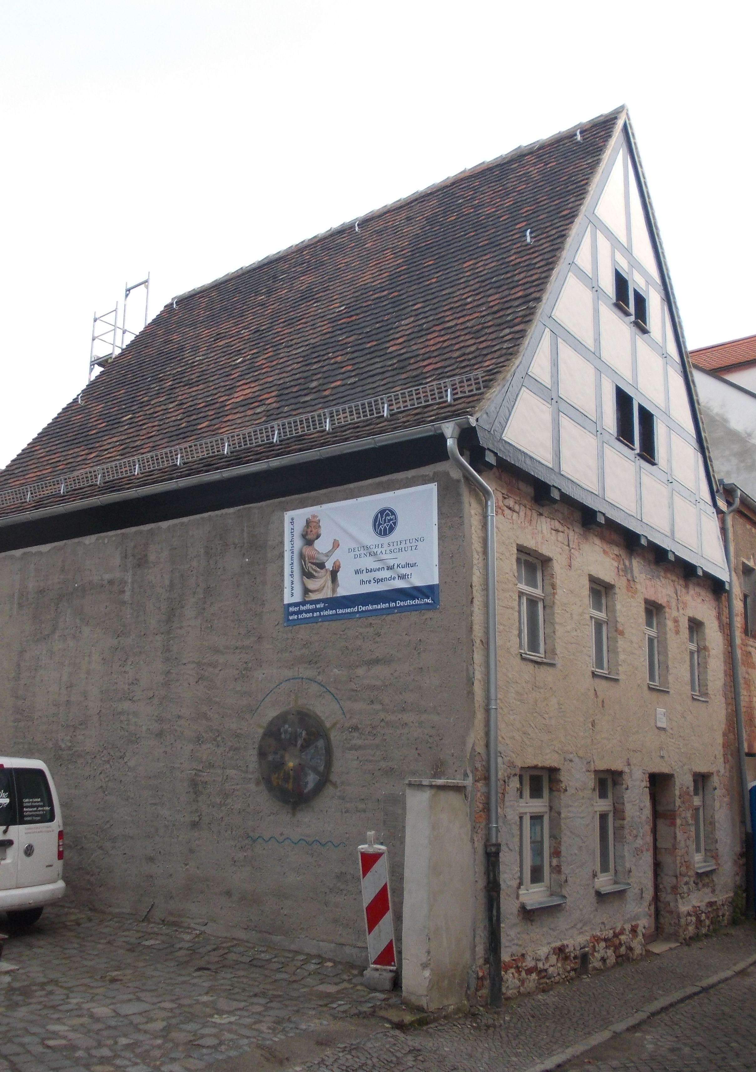 No. 8, Katharinenstrasse, the house where Georg Spalatin lived, in Torgau (Nordsachsen district, Saxony)